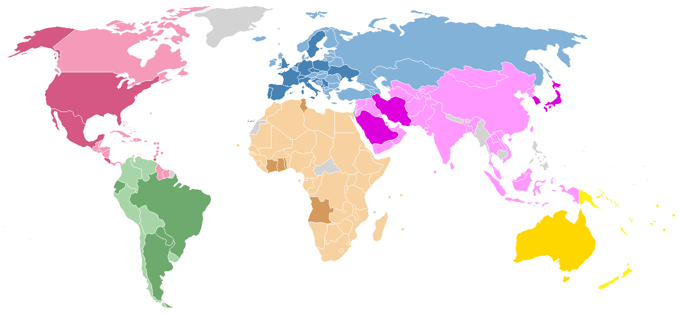 Description Teams of , Date24 April 2009Sourceown work based on File:FIFA WM 2006 Teams.pngAuthor44Charles Catégorie:Phase qualificative de la coupe du monde de football 2006 Teams of